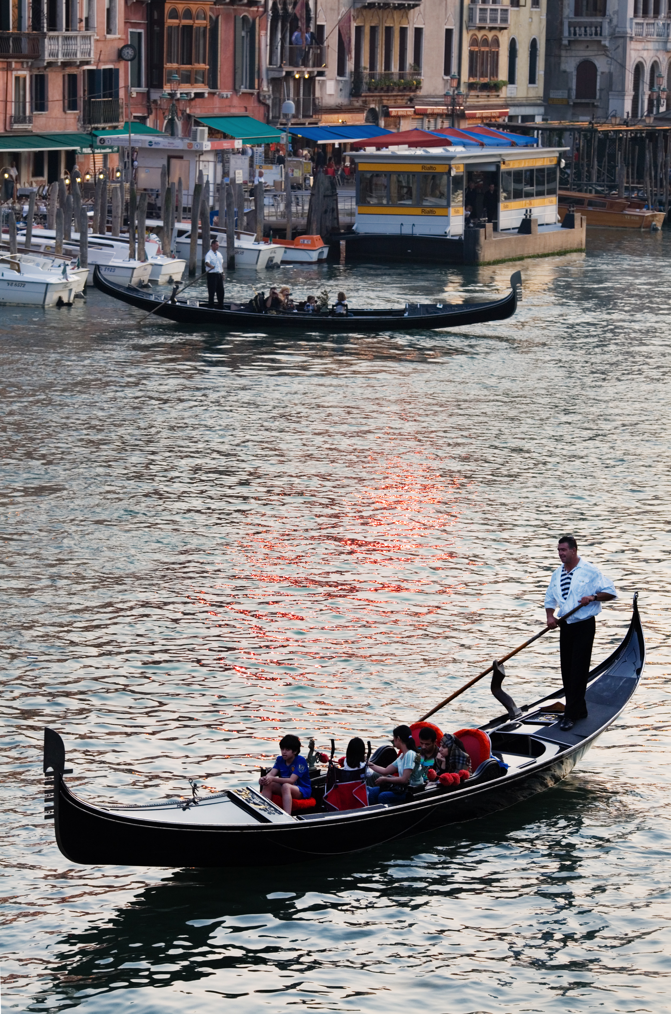 Gondolas in the Grand Canal. Venice, Italy 2009